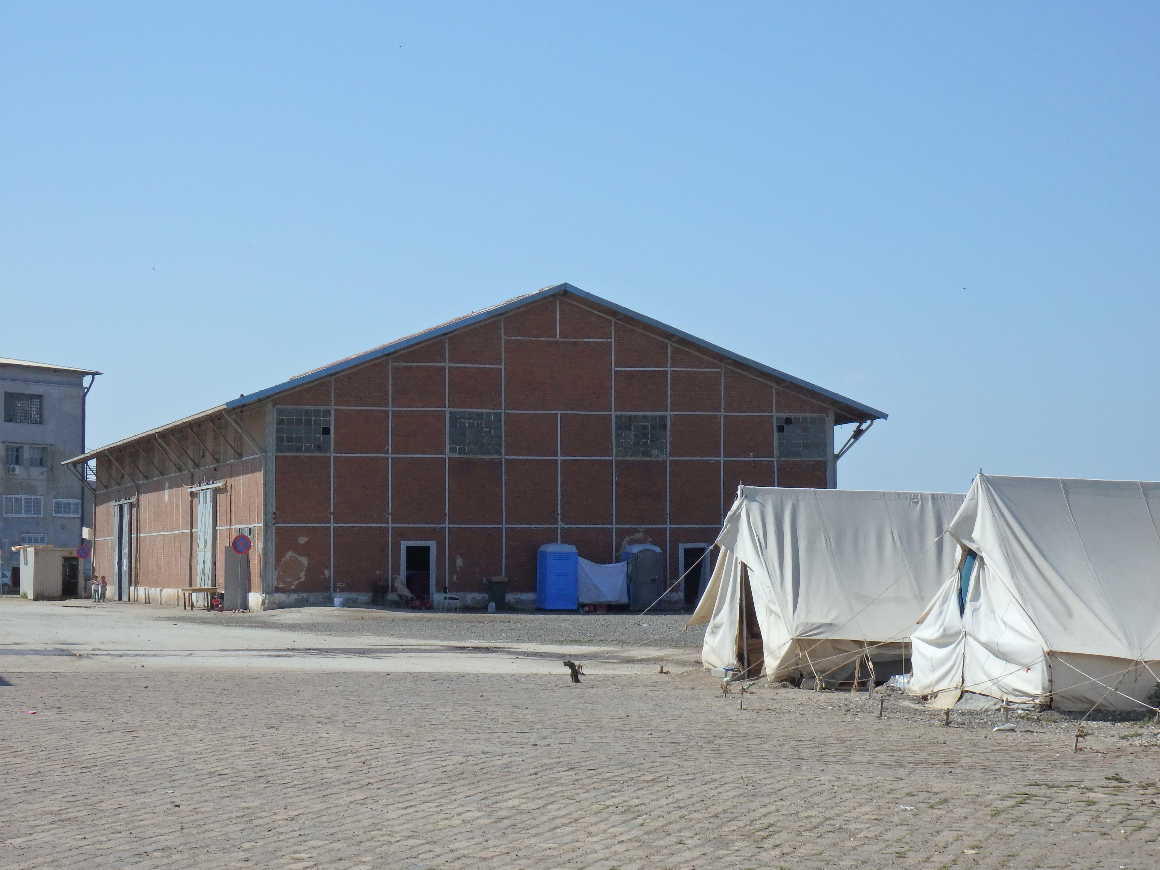 View of the main building and some tents of the Thessaloniki port refugee camp